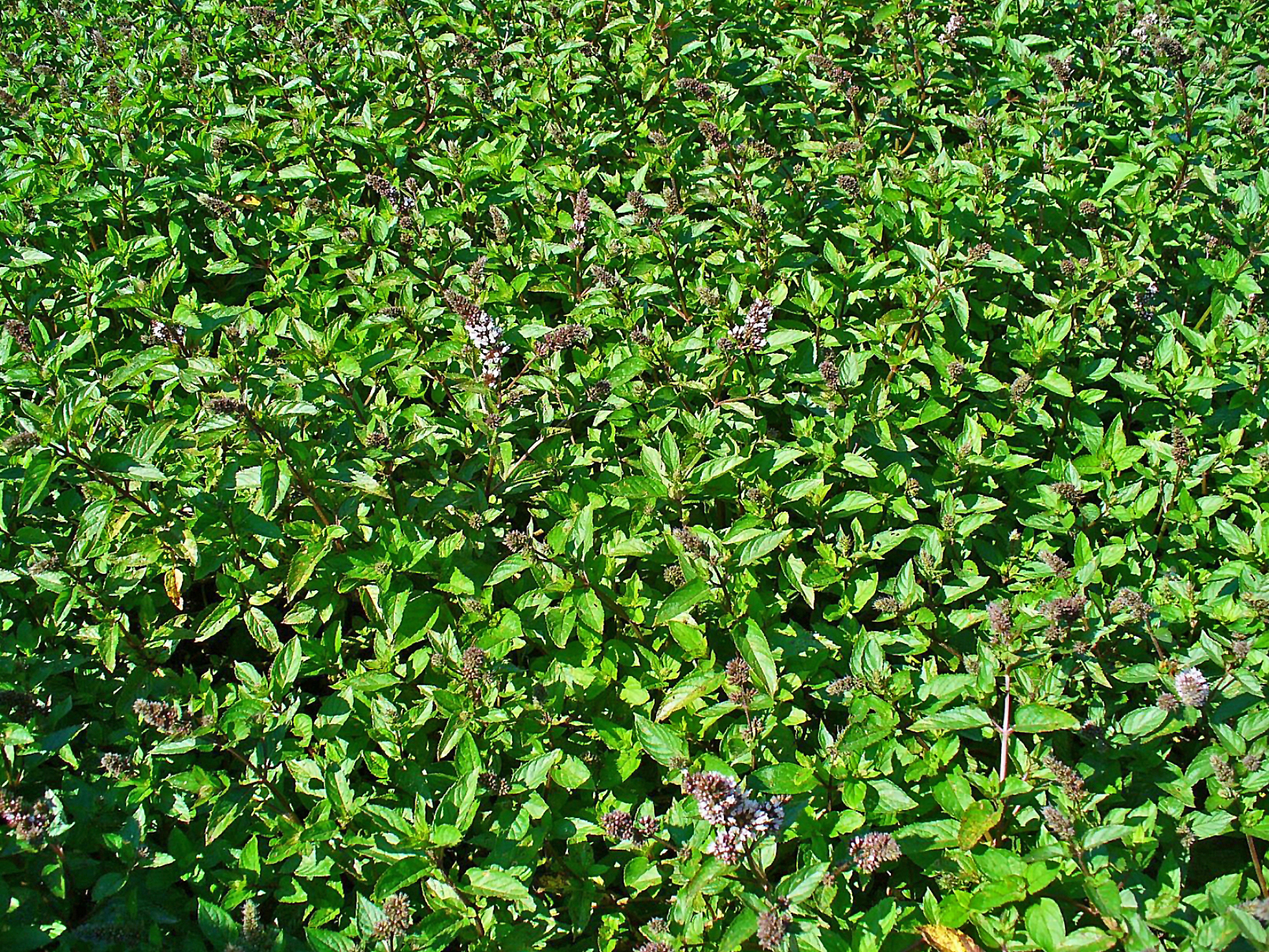 Mentha x piperita, Lamiaceae, Peppermint, habitus.